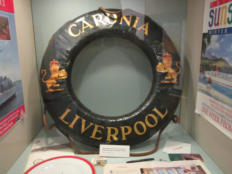 Lifebelt from RMS Caronia (1948), Merseyside Maritime Museum, Liverpool, England.